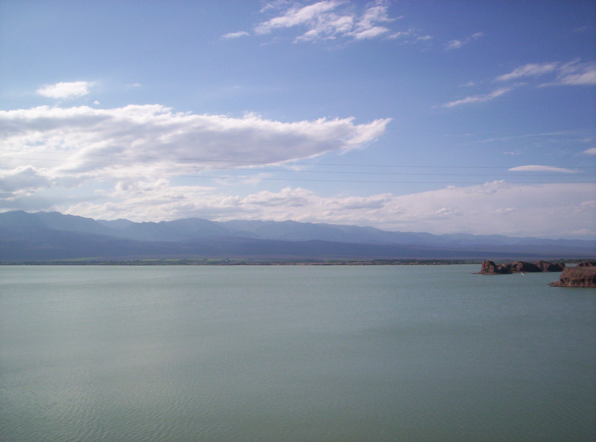 Photo shows a view of Ullum Damns in San Juan Province, Argentina